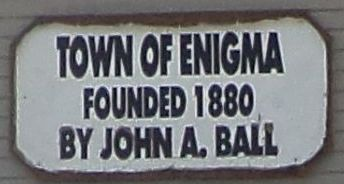 Plaque at city hall in Enigma, Georgia